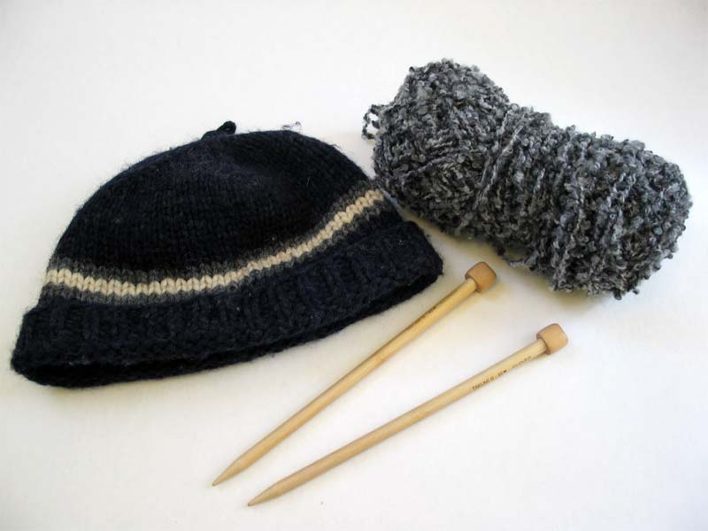 Description: Photo of knitted hat, yarn, and knitting needles Source: Photograph taken by Jared C. Benedict on 06 March 2004. Copyright: © Jared C. Benedict. Other versions: larger version (Info Page) Afbeelding:Breiwerk.jpg